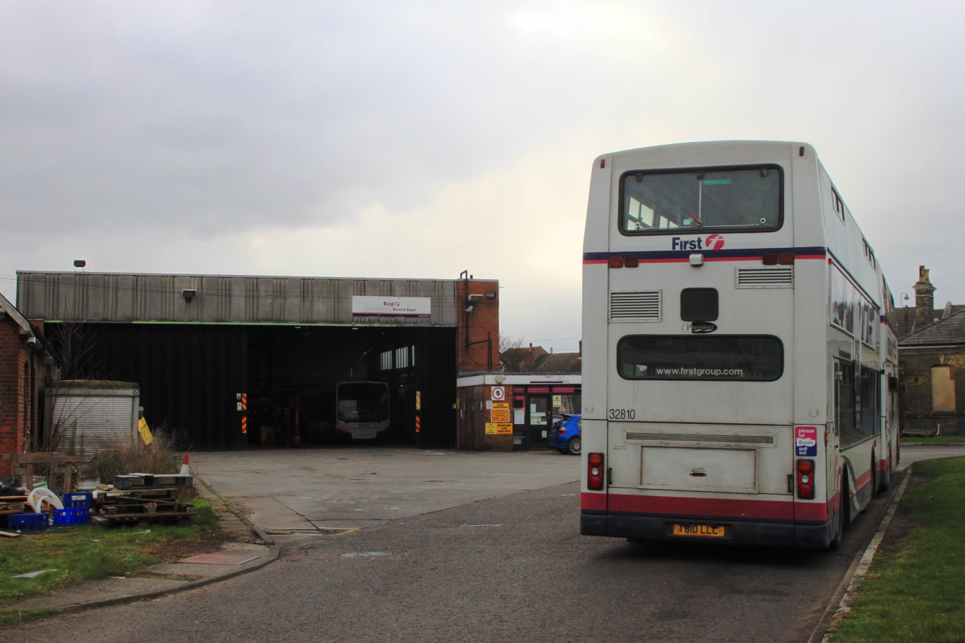 First Essex' 32810 and 32818 (Dennis Tridents with Plaxton bodies, registrations T810 LLC and T818 LLC) stand outside Harwich Town railway station. Parked in the adjacent bus garage is Alexander-Dennis Enviro 44517, registration YX09ACY) is picking up passengers for a journey towards Parkestone.